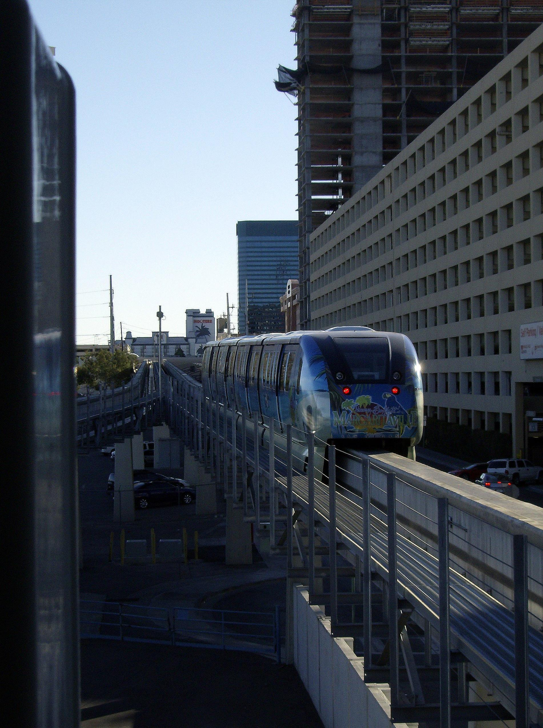 las vegas monorail duhsville